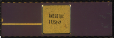 AMD Am2901 - 4-Bit-Slice ALU